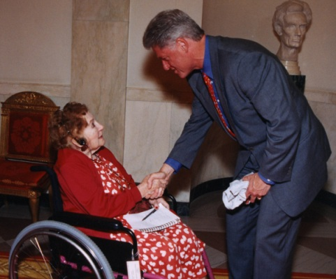 White House photograph of Sarah McClendon and Bill Clinton.